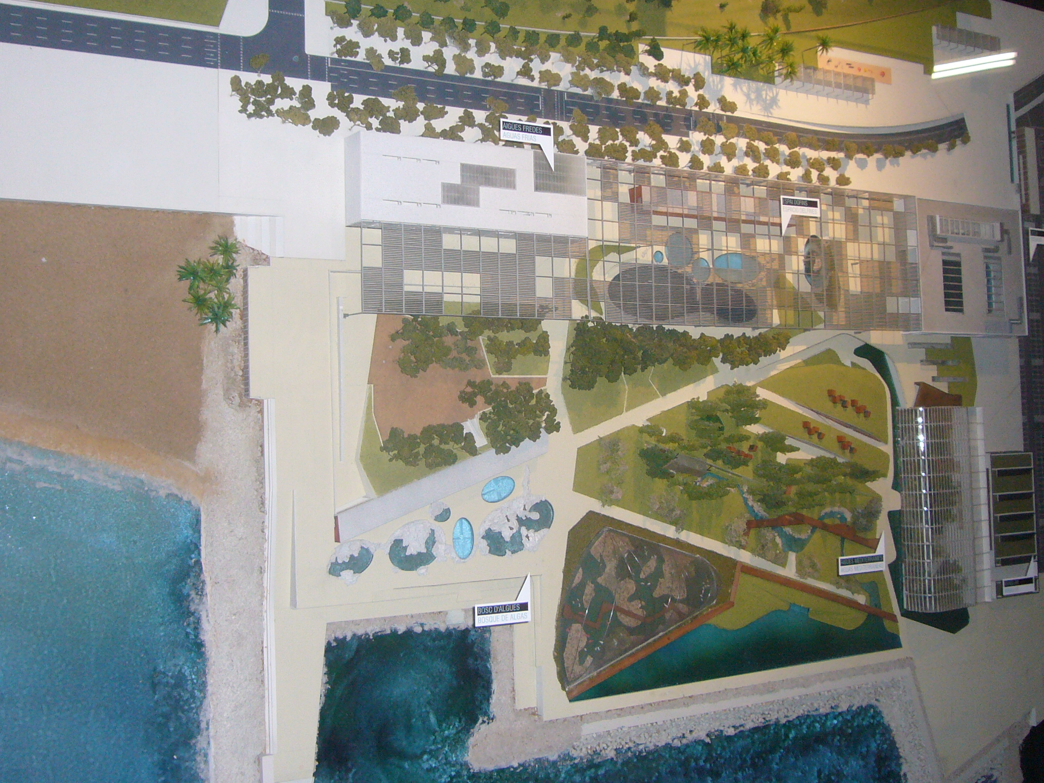 Model of the future marine zoo of Barcelona. Displayed at the Museu Blau museum